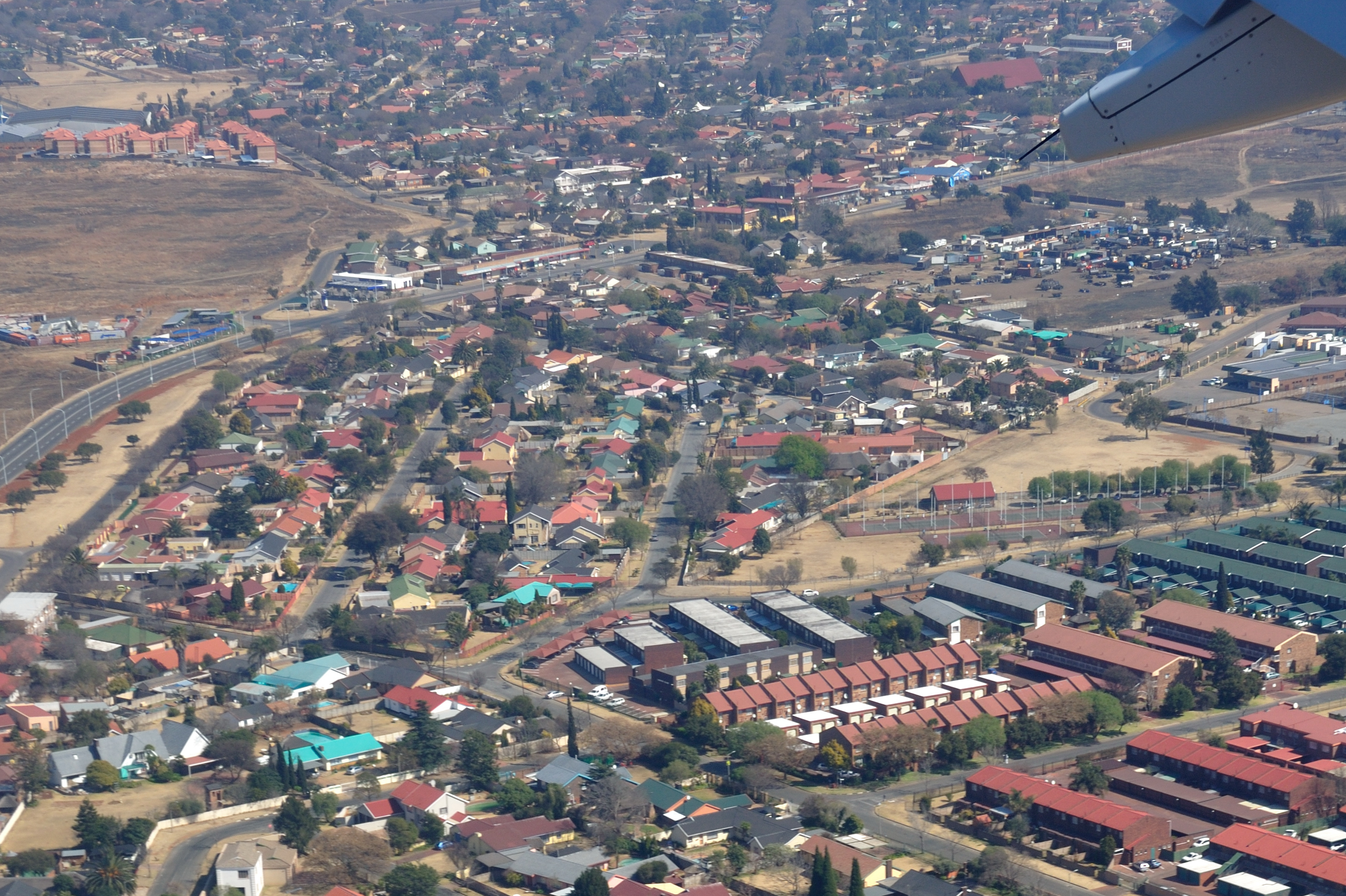 South Africa, Aerial view overhead Boksburg